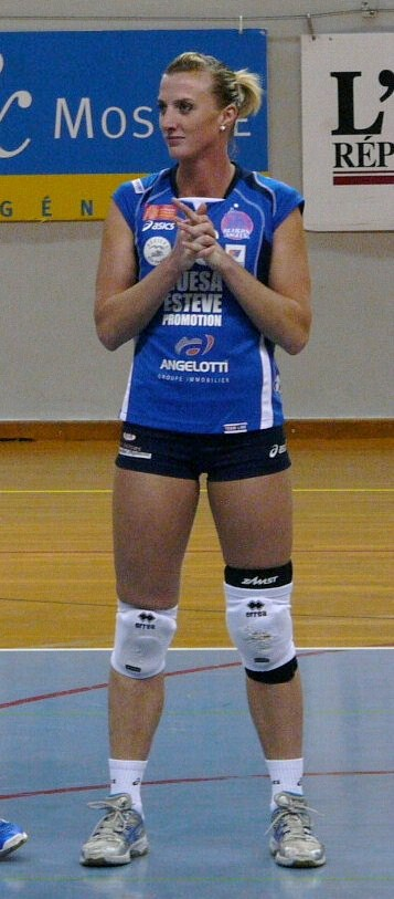 French volleyball player Hélène Schleck.